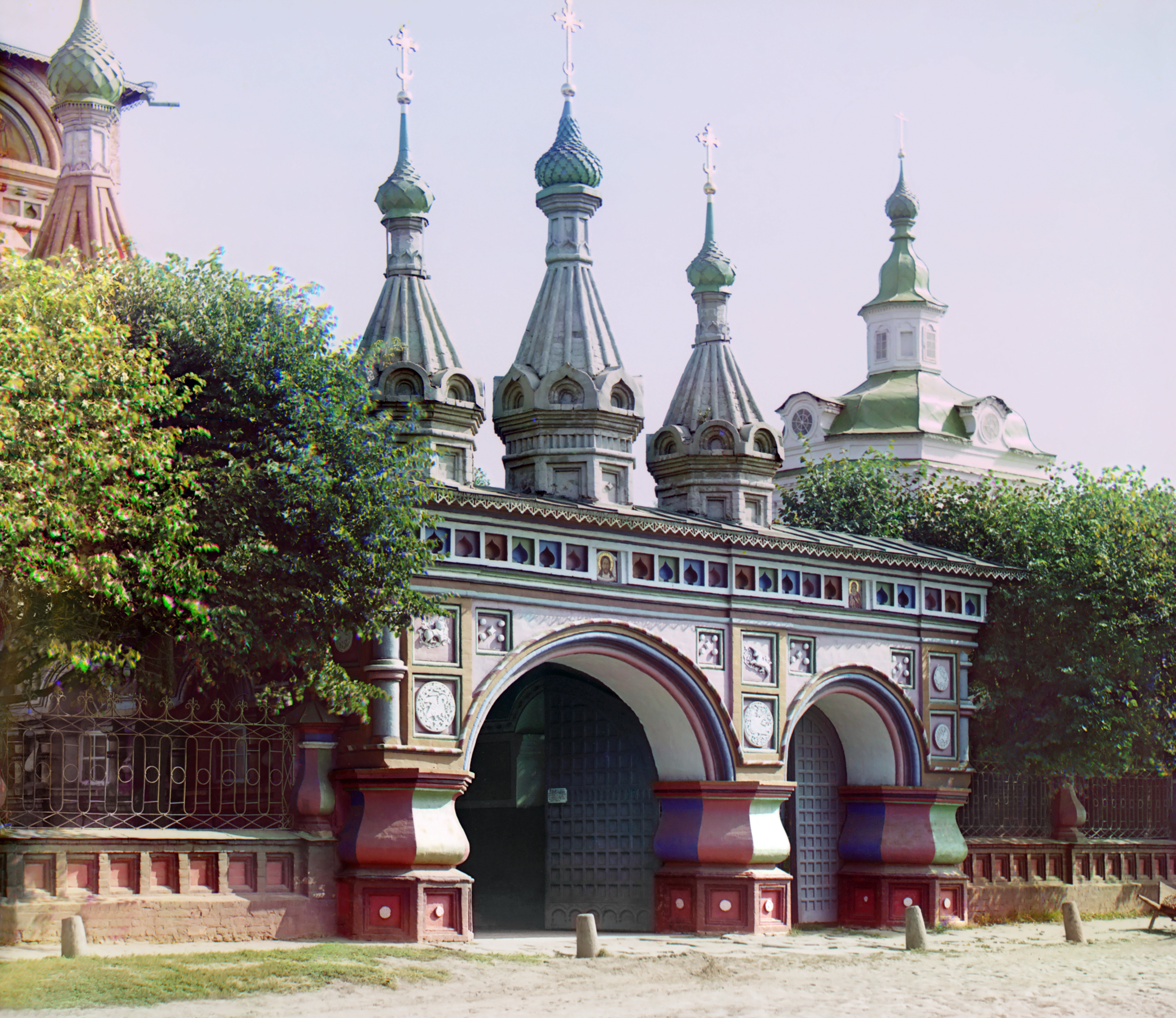 Entrance into the Church of the Resurrection. Kostroma.